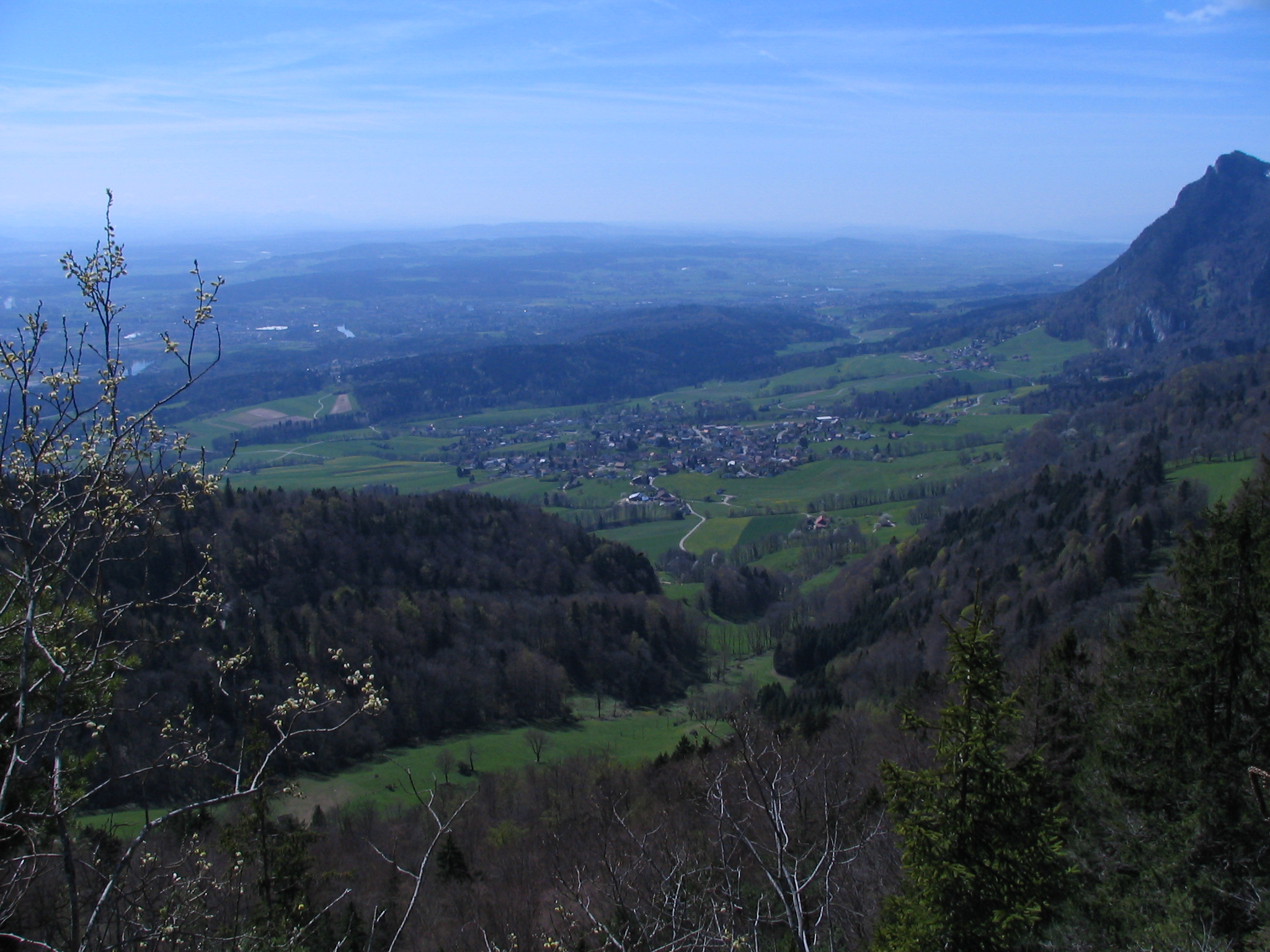 The village Günsberg seen from the Jura